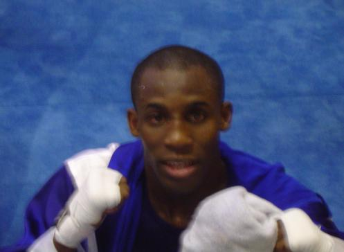 Yordenis Ugás after defeating Hamza Kramou in the first round of the 2008 Summer Olympics.